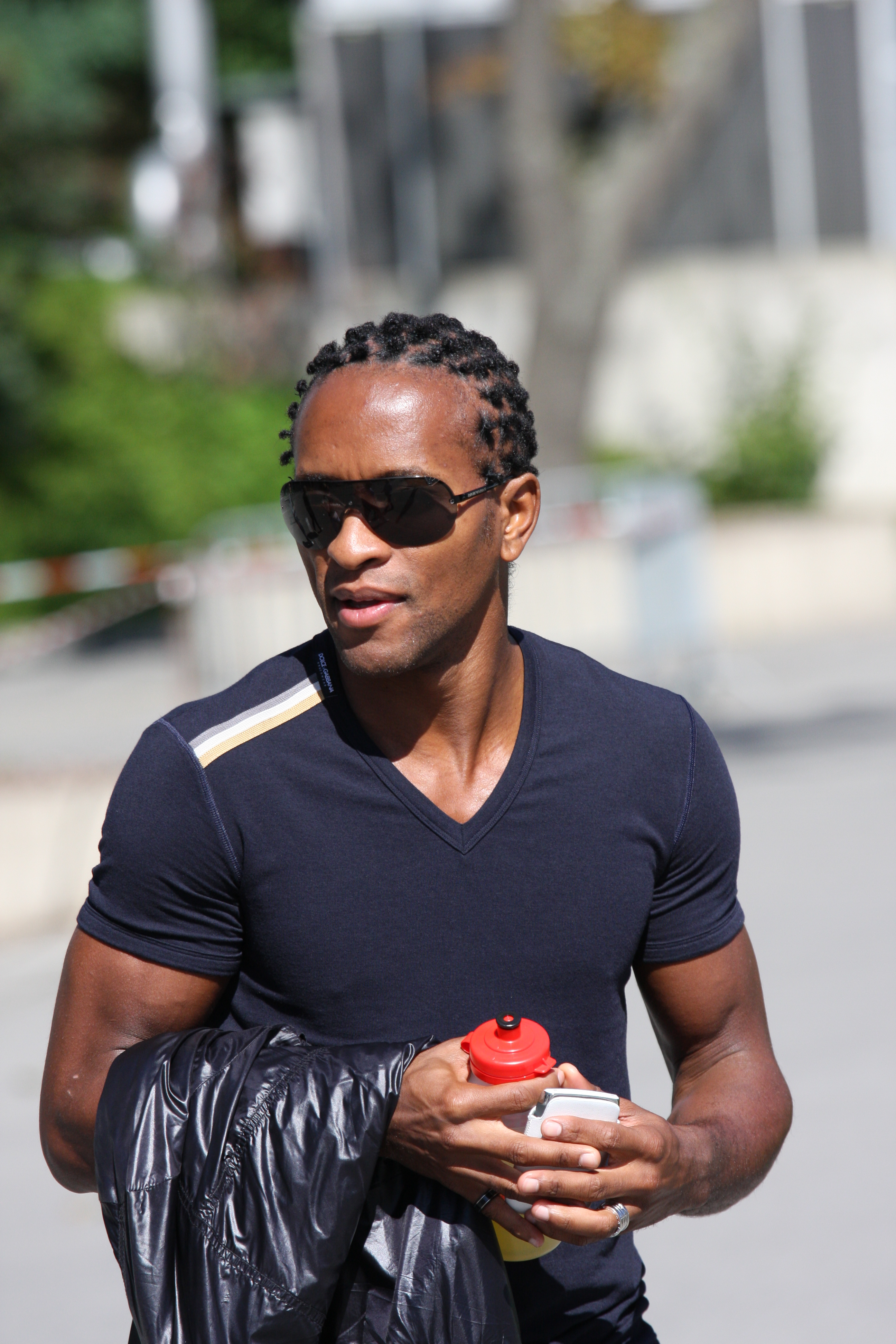 José Roberto da Silva Júnior after training in Hamburg (Germany).